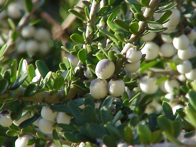 Species: Hymenanthera crassifolia Family: Violaceae Image No. 1